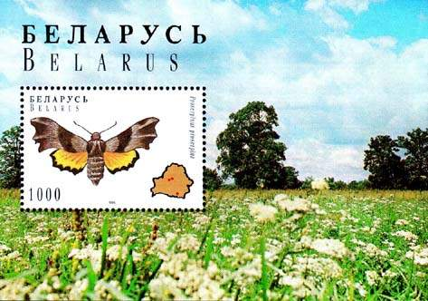 Stamp of Belarus